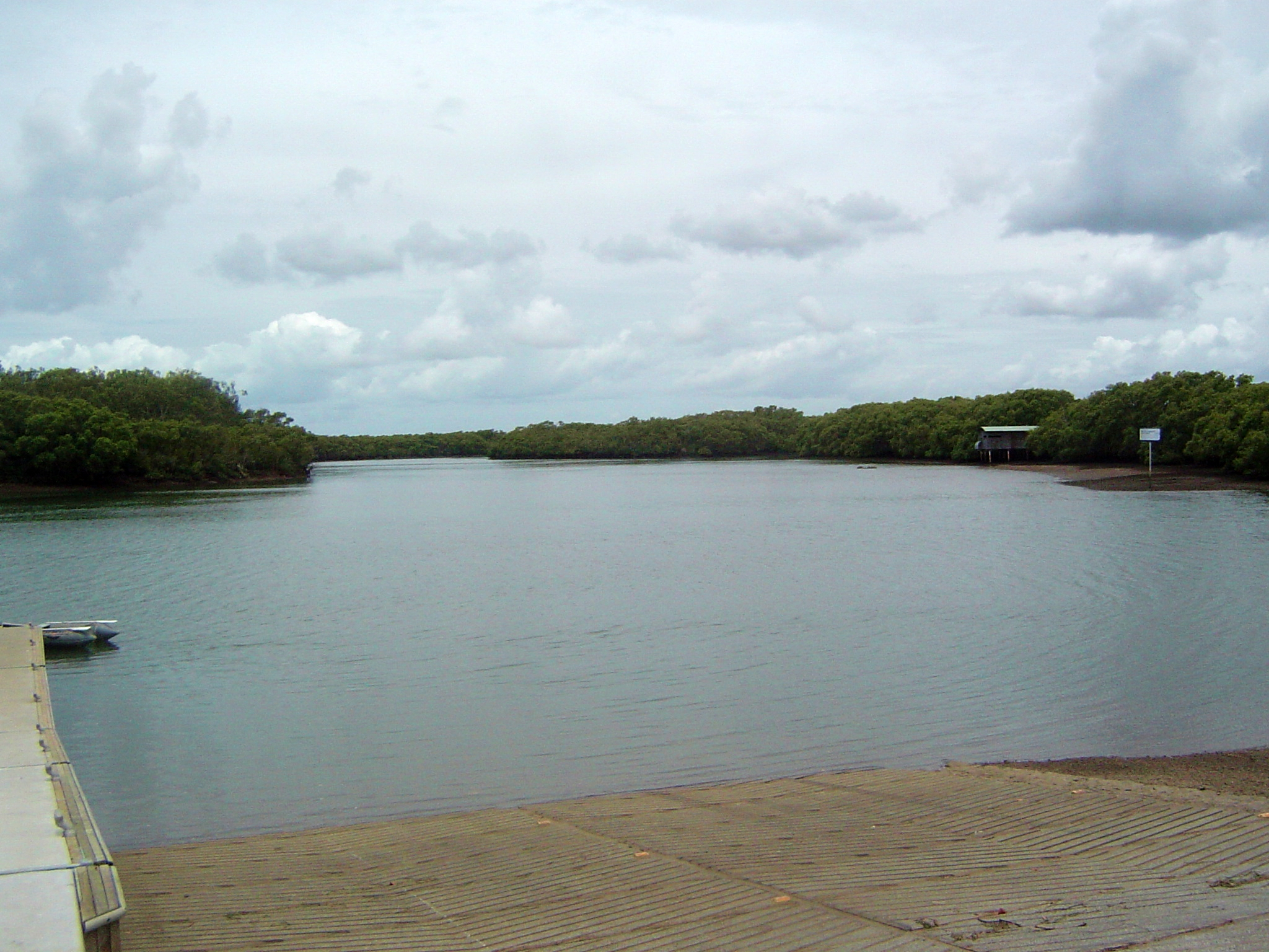 Photo of Cabbage Tree Creek and Boondall Wetlands from Shorncliffe, Queensland, Australia